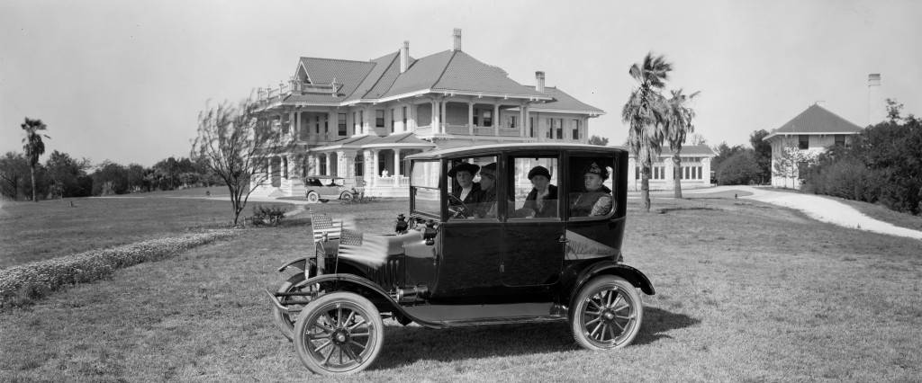 Suffragists getting ready to campaign for the vote in Texas. Eleanor Brackenridge and Mrs. H.P. Drought are inside the car. The home in the background belongs to Brackenridge and her brother, George. Circa 1916 or 1917.